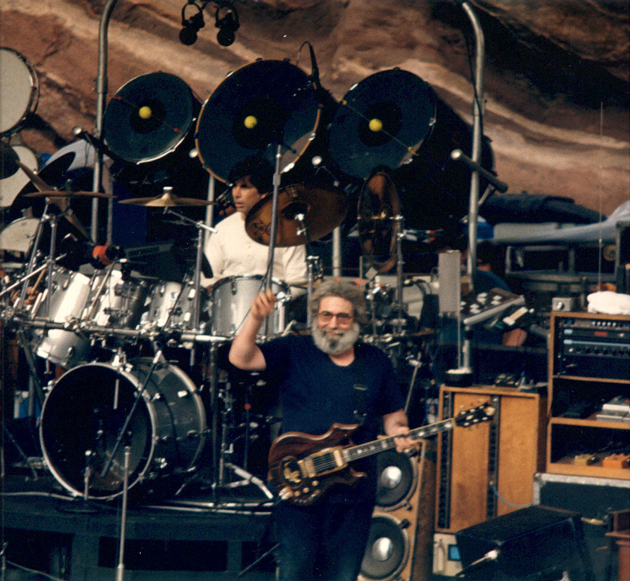 Jerry Garcia (front) and Mickey Hart (playing drums) of the Grateful Dead at Red Rocks Amphitheatre in Morrison, Colorado. Image from a deadhead to other deadheads give peace some chance and more at